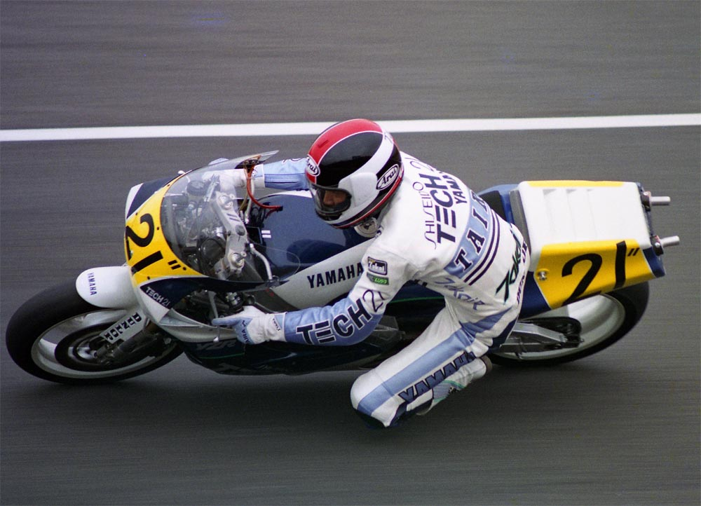 Tadahiko Taira, in Japanese Grand Prix 1989